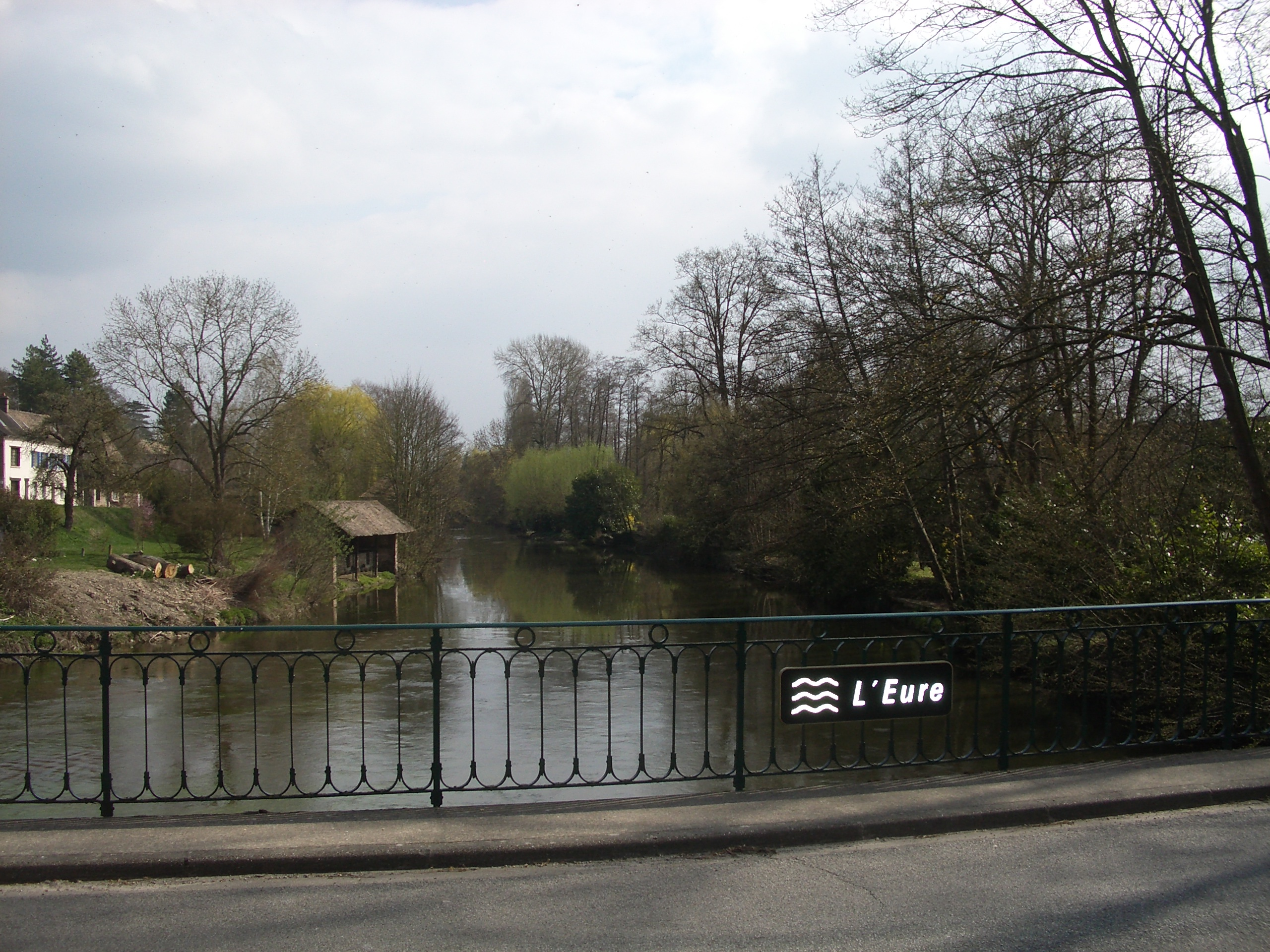 The river Eure at Cocherel (commune d'Houlbec-Cocherel)